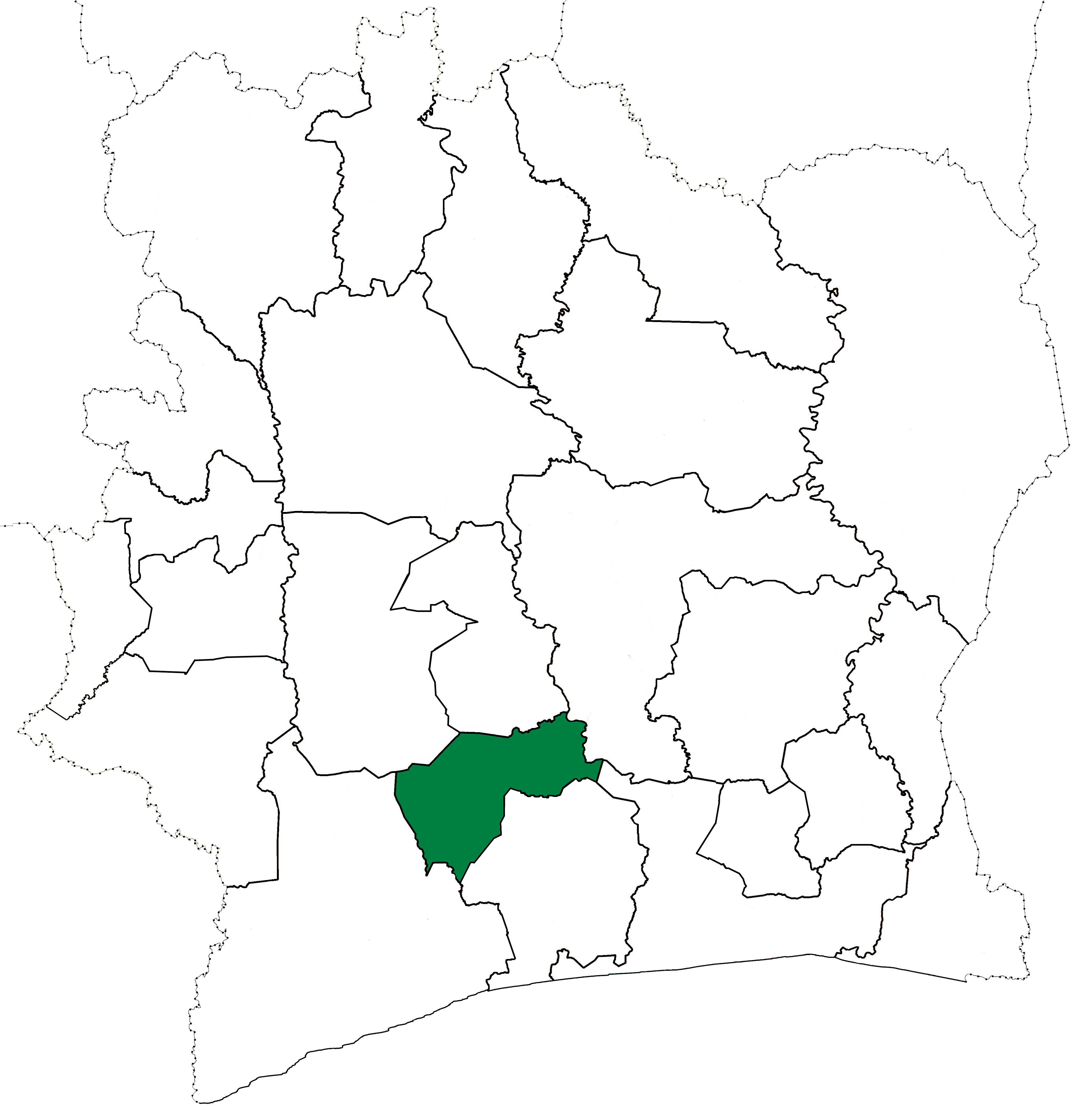 Locator map for Gagnoa Department in Côte d'Ivoire when the 24 new departments were created in 1969. Gagnoa Department kept these boundaries until 1980, but other departments began to be divided in 1974.